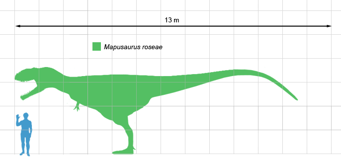 Size comparison of Mapusaurus roseae and a human. Adapted from an illustration by Ville Sinkkonen.